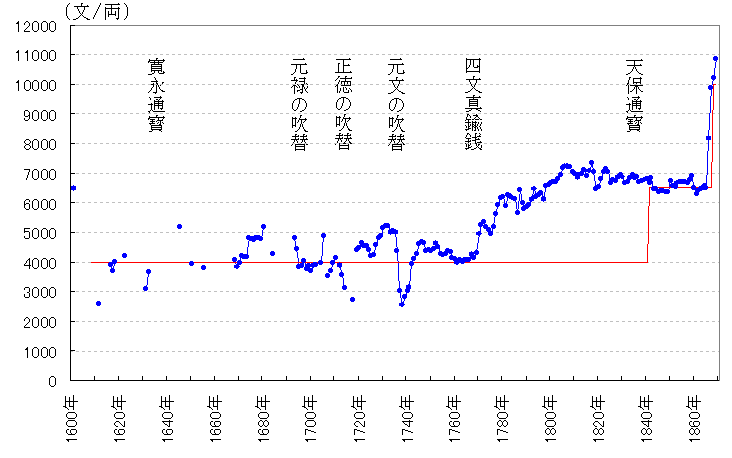 Zeni-Ryo-rate